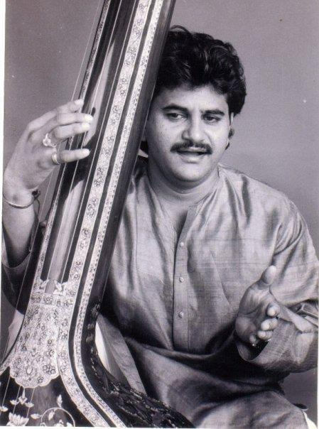 An image of Pt. Rattan Mohan Sharma, a foremost exponent of the Mewati Gharana of Hindustani Shastriya Sangeet. He is the nephew and disciple of Pandit Jasraj.